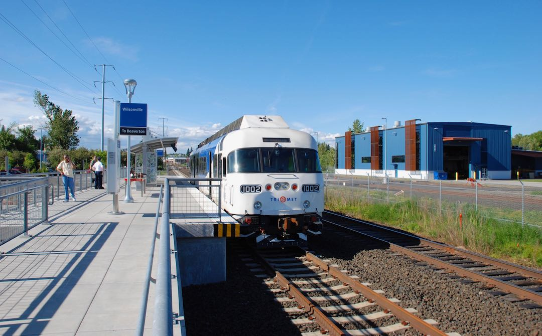 Car 1002 of the WES Commuter Rail line, of TriMet, at Wilsonville station (in Wilsonville, Oregon). In the righthand background is the maintenance building where the WES rolling stock of is maintained.